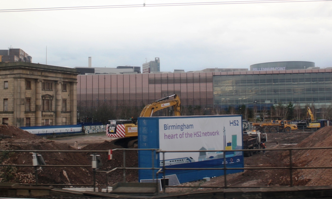 Looking north across the site for the Birmingham terminus of the new HS2 railway line. The old London & Birmingham Railway terminus is on the left and will be retained withing the new station.